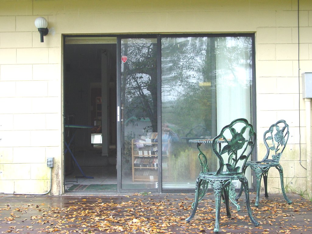 A sliding glass door and some chairs seen from outside a building.